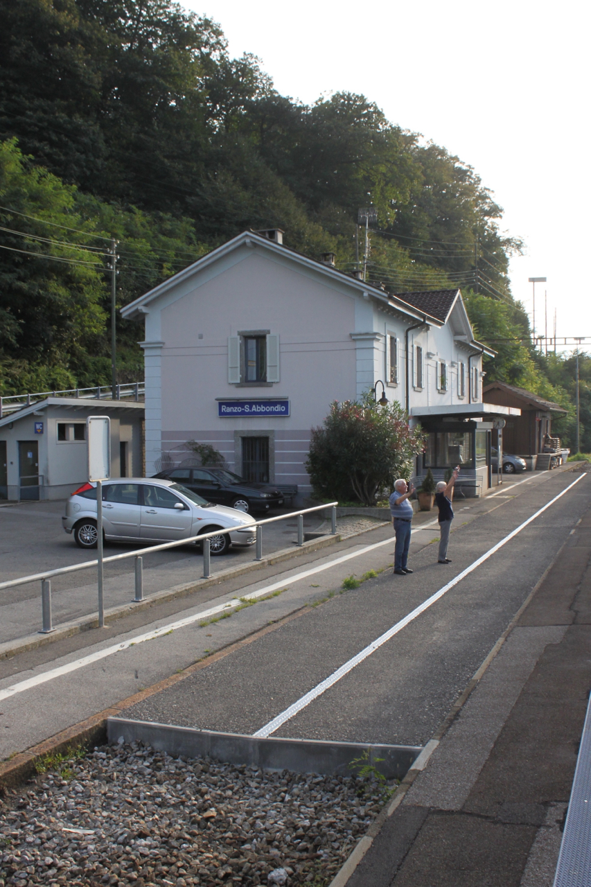 Ranzo-S. Abbondio train station